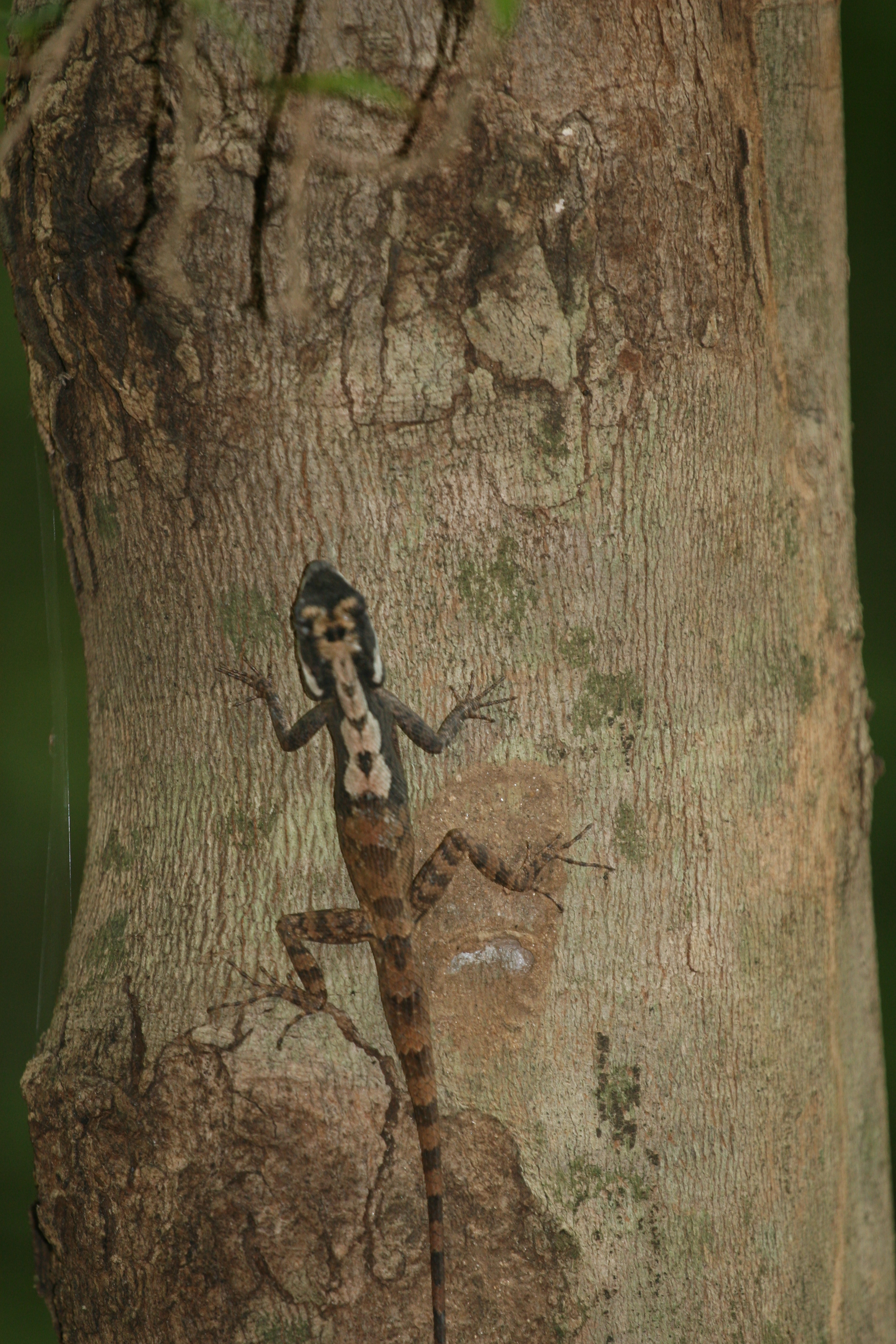 At Kandalama